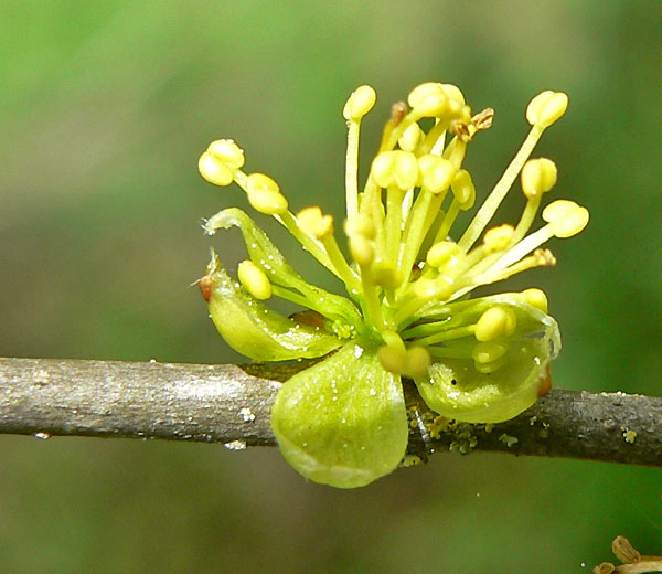 Photo of Forestiera pubescens at the Regional Parks Botanic Garden, Berkeley, California